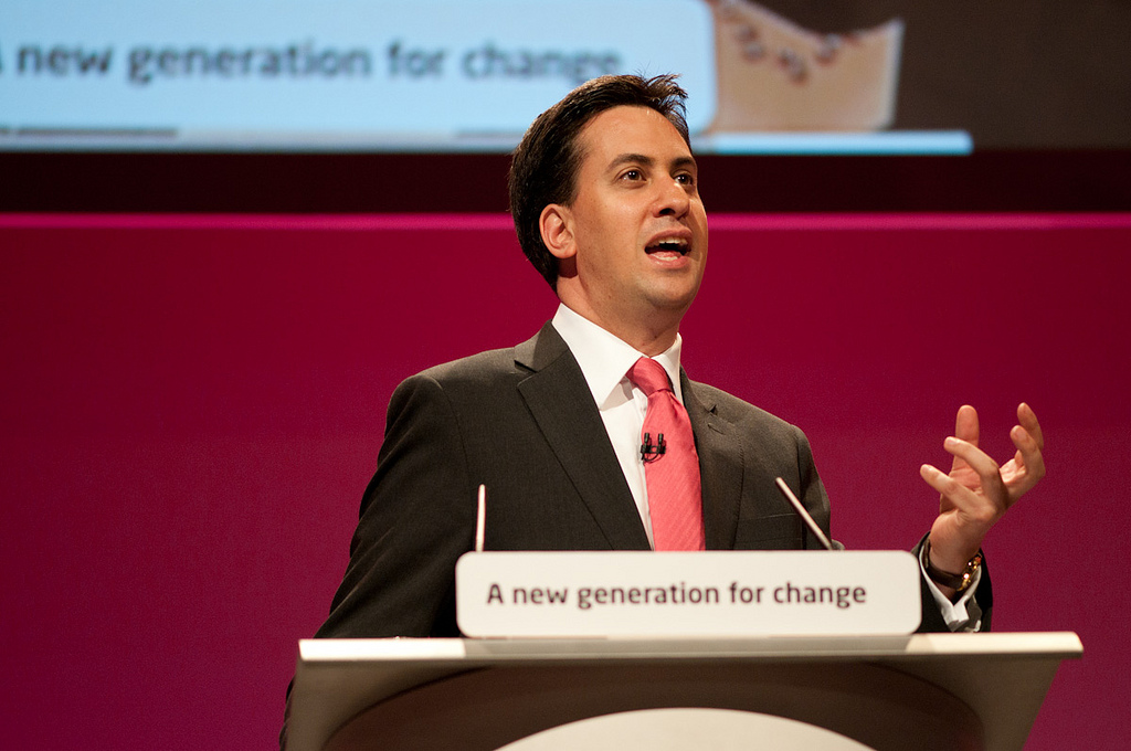 Ed Miliband gives his first keynote speech to Labour Party conference as leader, in September 2010.